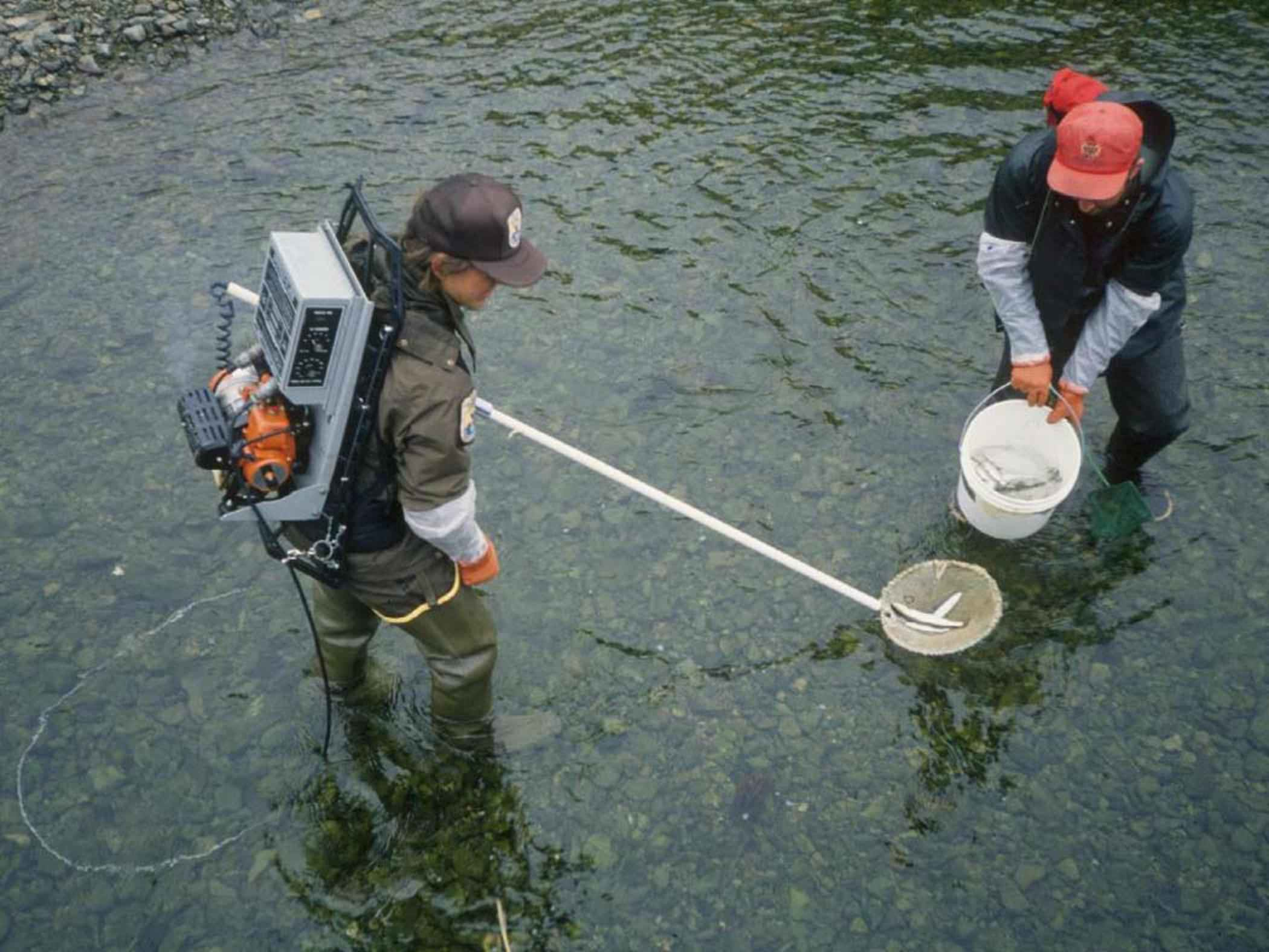 Image title: Anglers using backpack electroshocker to capture fish Image from Public domain images website